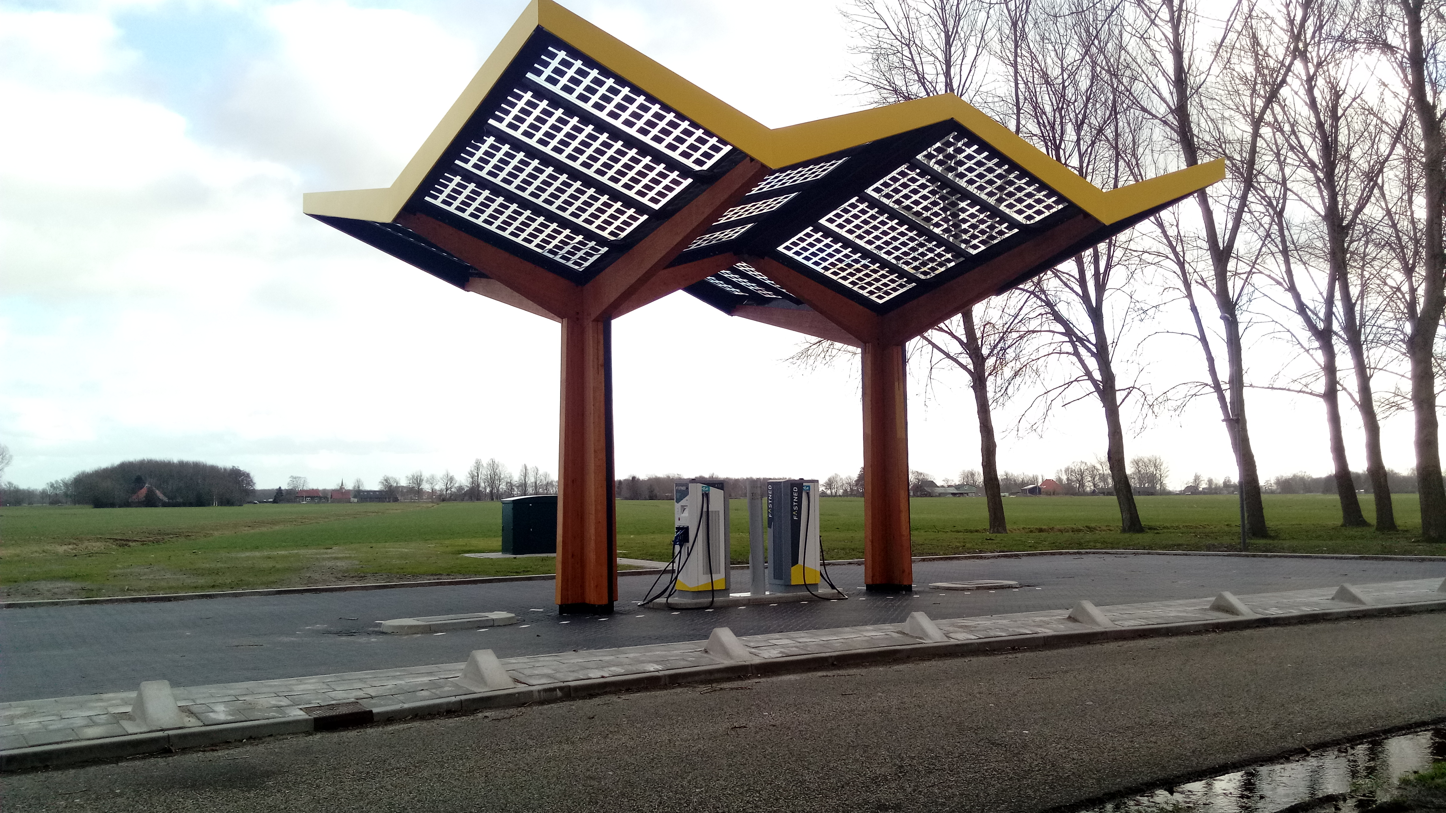 A local charging station for electric vehicles in the Frisian area of De Wâlden ("The Woods").